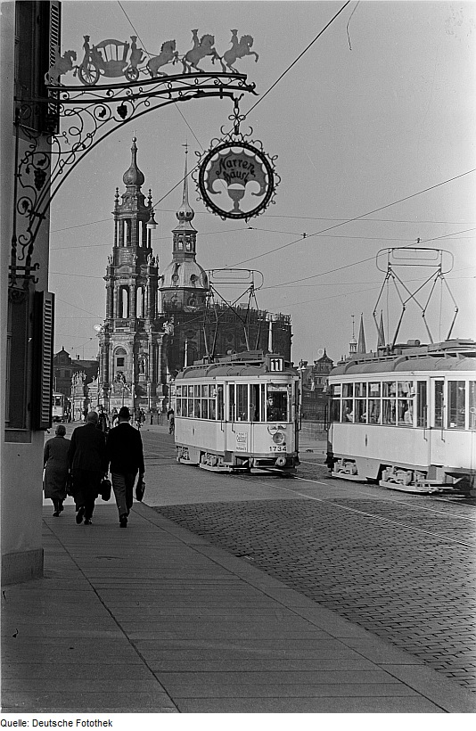 wall bracket with restaurant sign Narrenhäusl, Augustusbrücke and church Hofkirche, Dresden, Germany